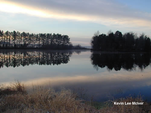 Wheeler National Wildlife Refuge, Alabama